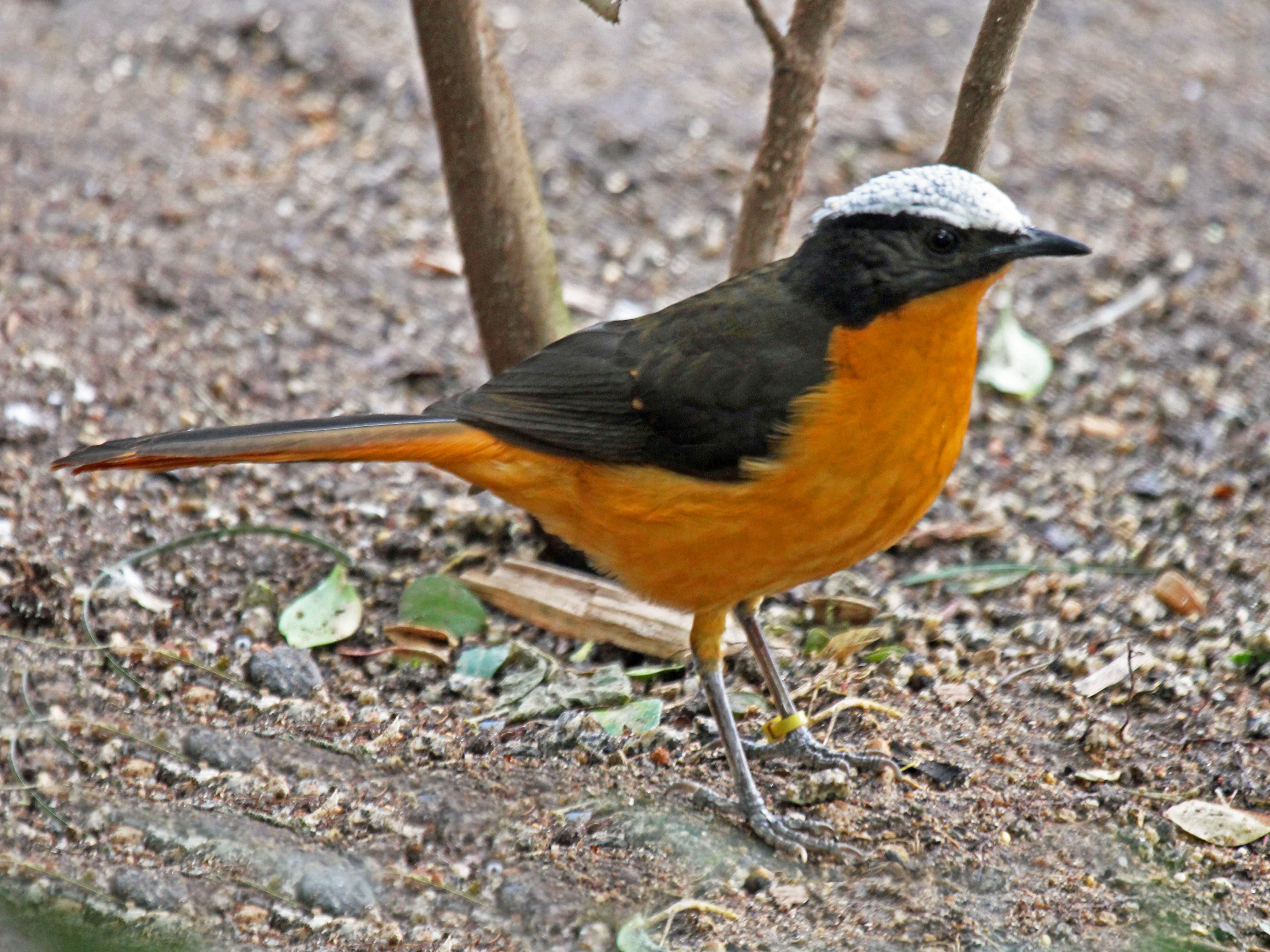 White-crowned Robin-chat (Cossypha albicapilla) = San Diego Zoo